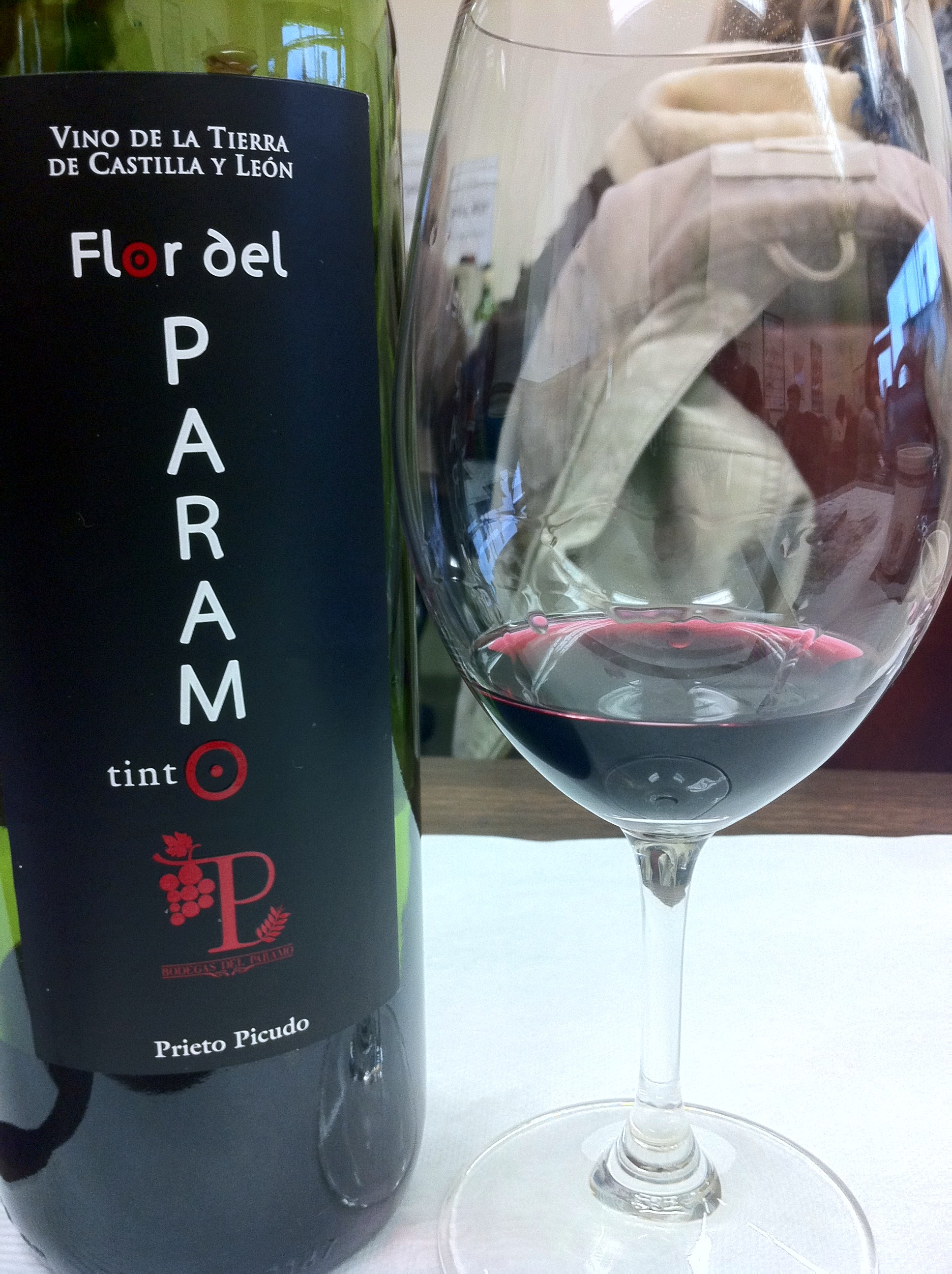 Spanish wine made from the Prieto Picudo grape.